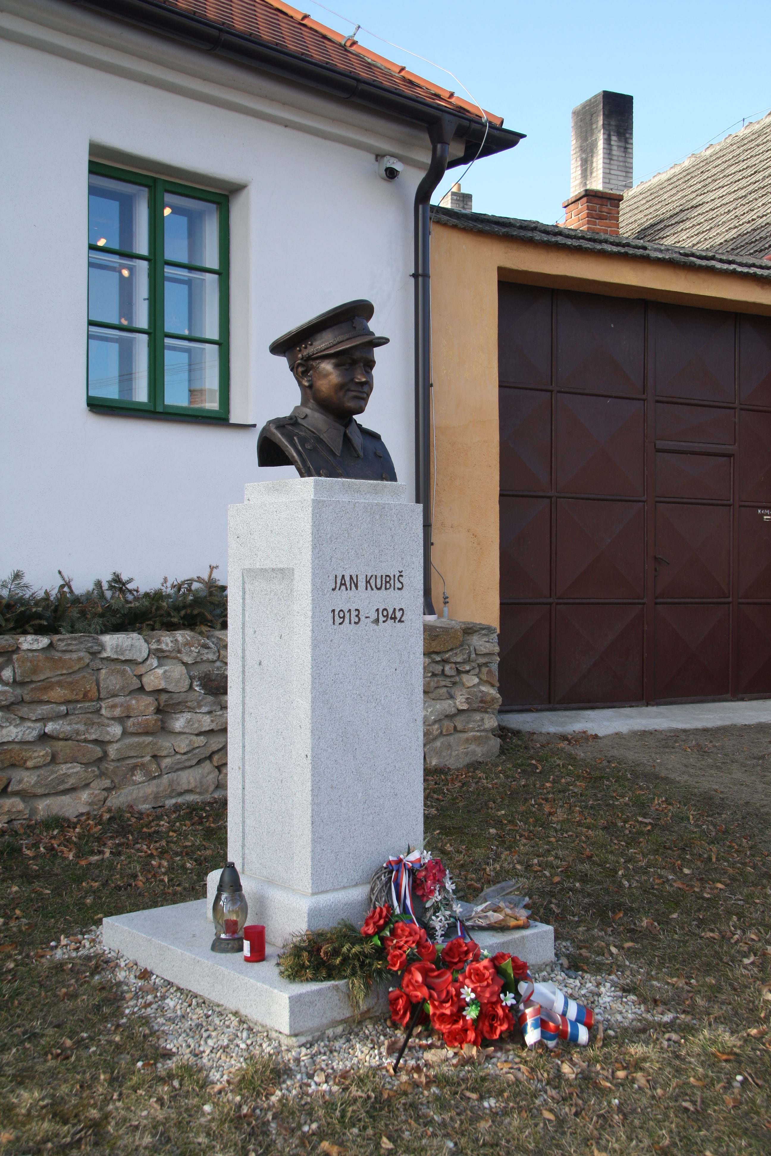 Overview of statue of Jan Kubiš in Dolní Vilémovice, Třebíč District.